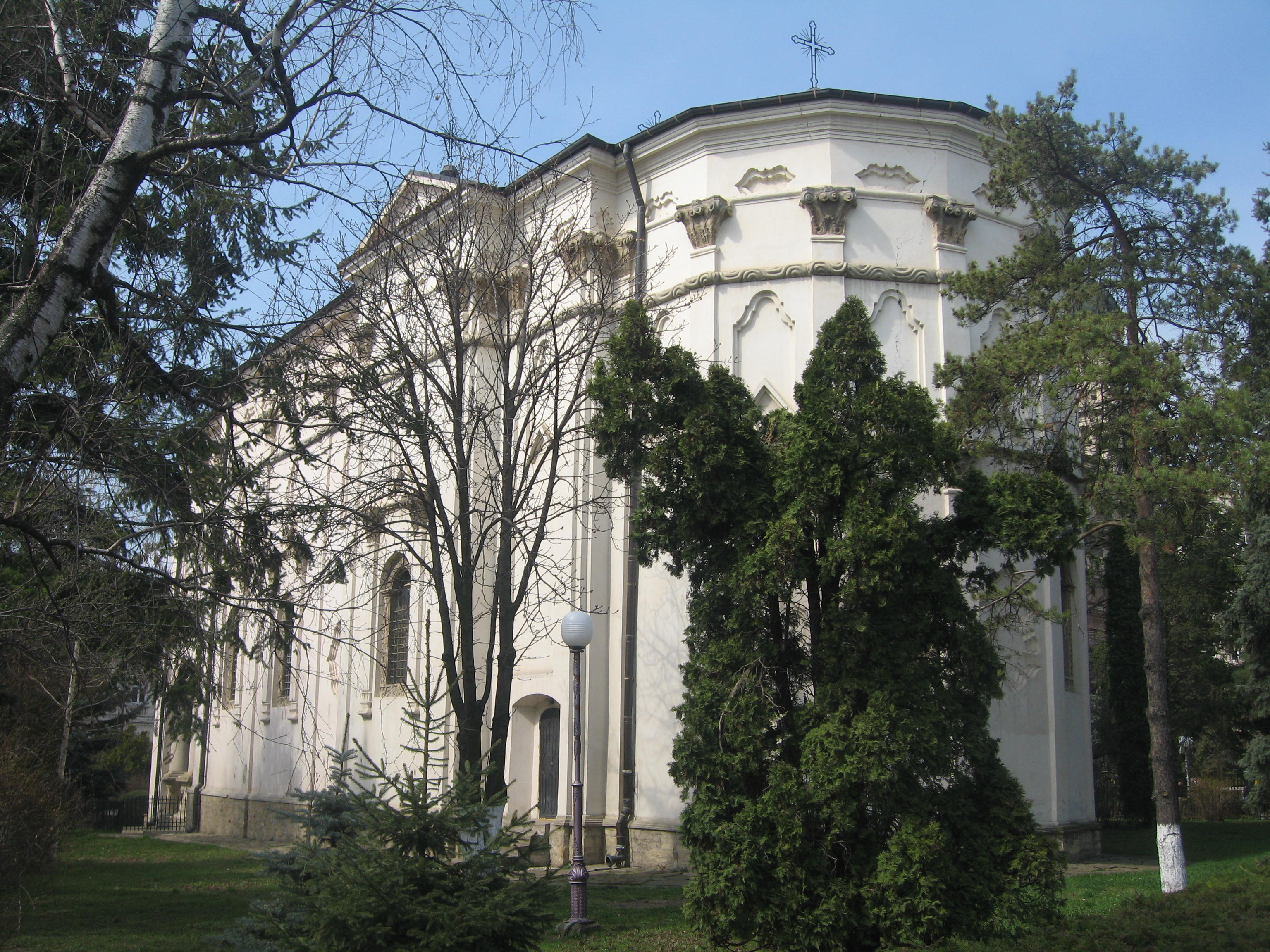 St.George Church in Iași (old Metropolitan Cathedral)